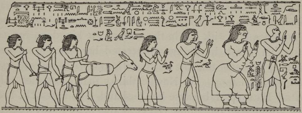 Pa-rehu, the Prince of Punt, his wife and his two sons, and a daughter. (This portion of the relief was stolen from the temple, and has not been recovered.)Ancient Egyptian drawing of a relief from a temple of Pa-rehu, Prince of Punt, and his family.